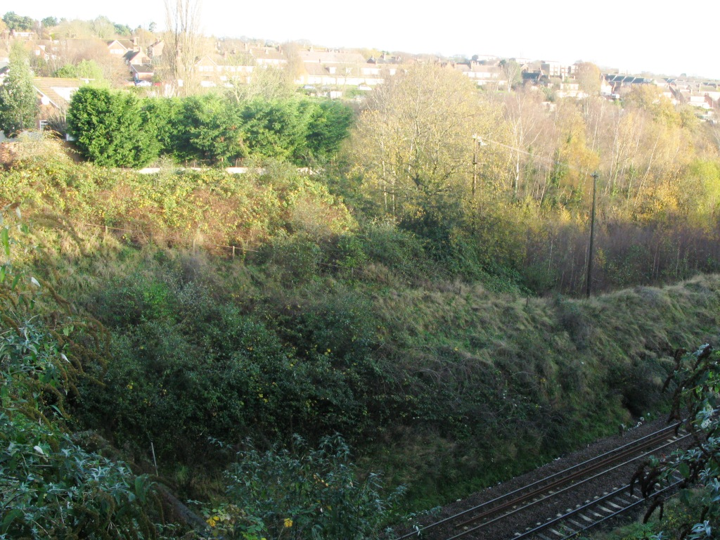 The site of Mount Pleasant Road Halt in Exeter, Devon. This railway station was situated between Blackboy Tunnel (to the left) and Exmouth Junction. The railings seen in the bushes line the path from Mount Pleasant Road to the eastbound platform. It was opened on 26 Janaury 1906 and closed on 2 January 1928.